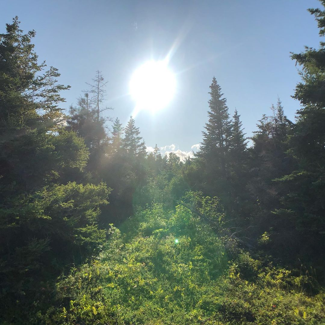 The nature surrounding Pomquet beach in Nova Scotia, Canada